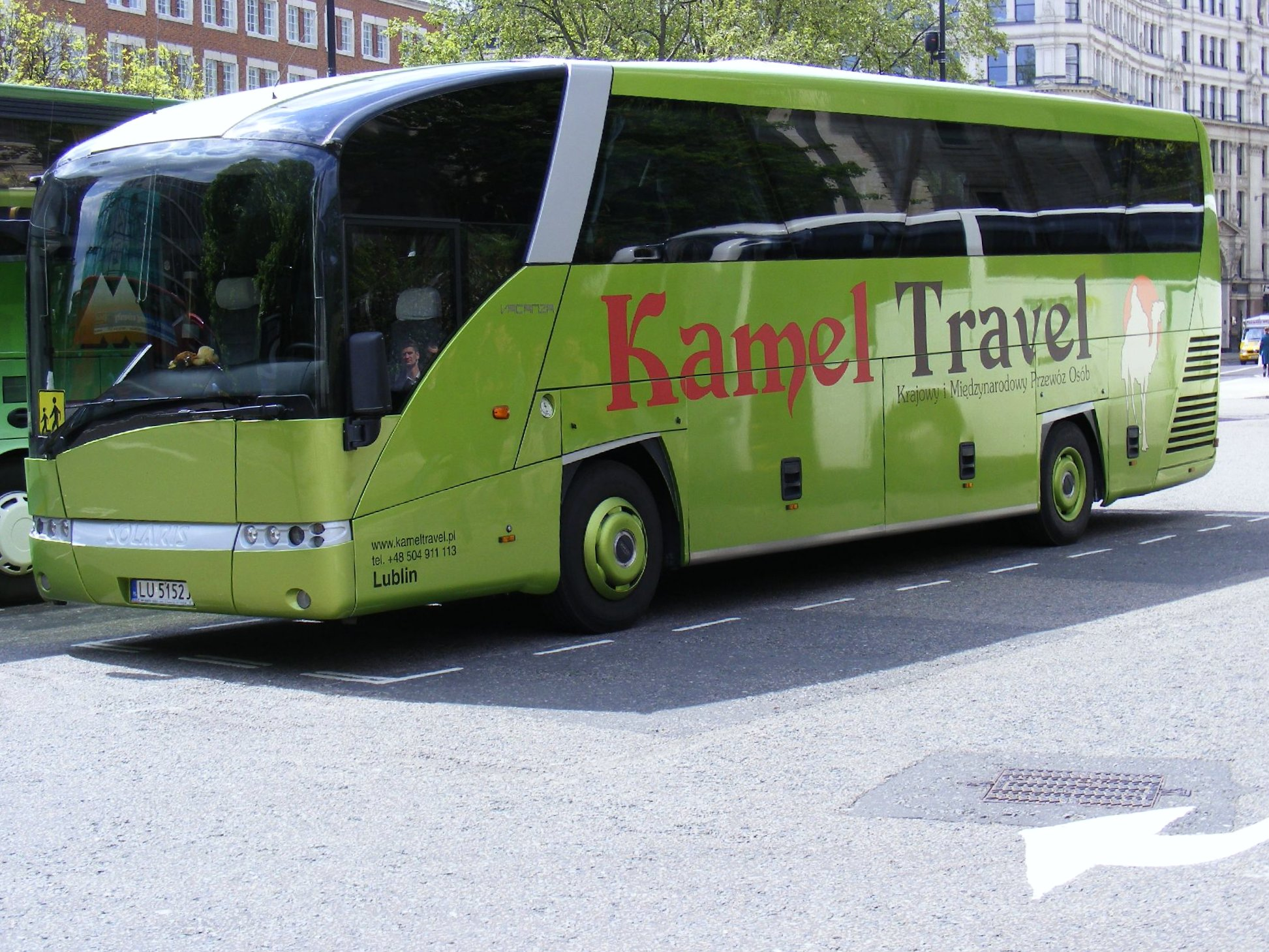 Solaris Vacanza 12 coach no LU 5152J of Kamel Travel of Lublin, Poland. Made in Poland, type introduced 2001 with DAF engine.